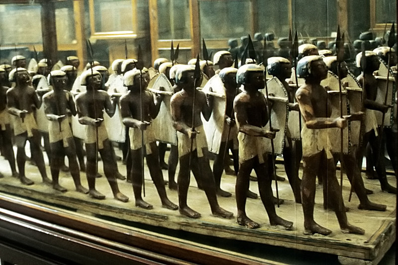 Wooden model of Egyptian lance warriors from the tom of Mesehti, CG 258, JE 30986, Asyut, Egyptian Museum of Cairo, Egypt